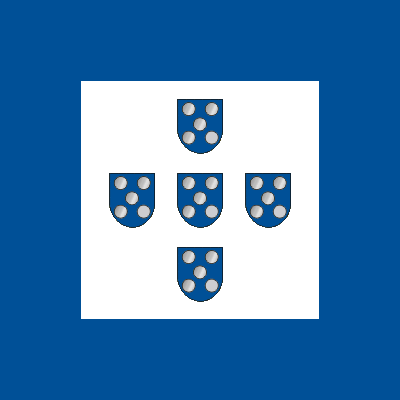 Putative flag of União Nacional (National Union) (c. 1932? – 1974)